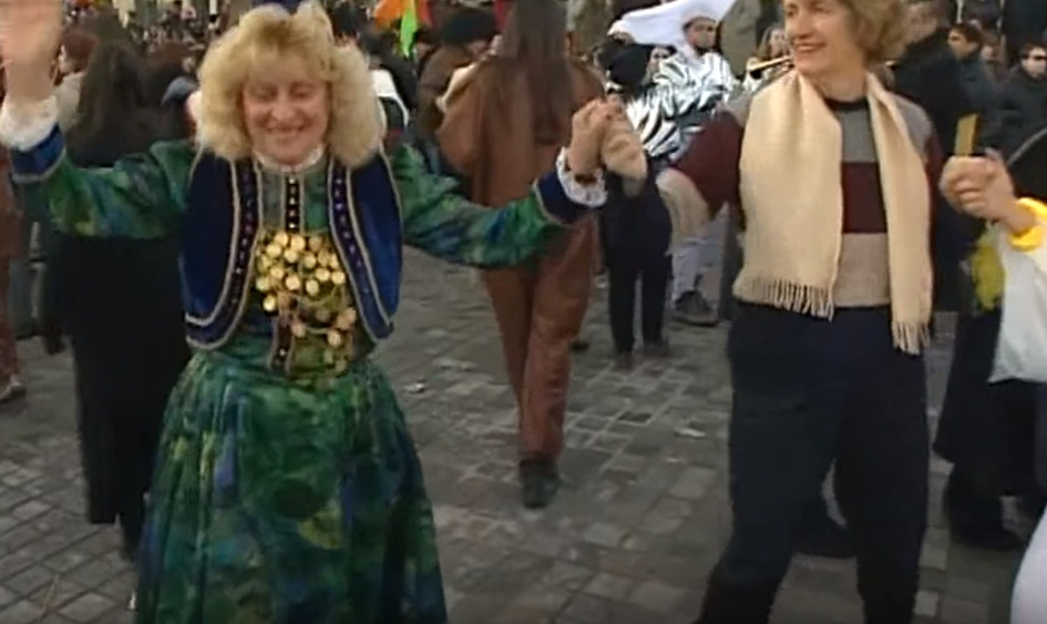 Танці на площі міста